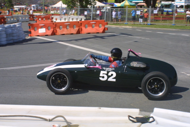 Cooper T52 Formula Junior racing car at Speed on Tweed